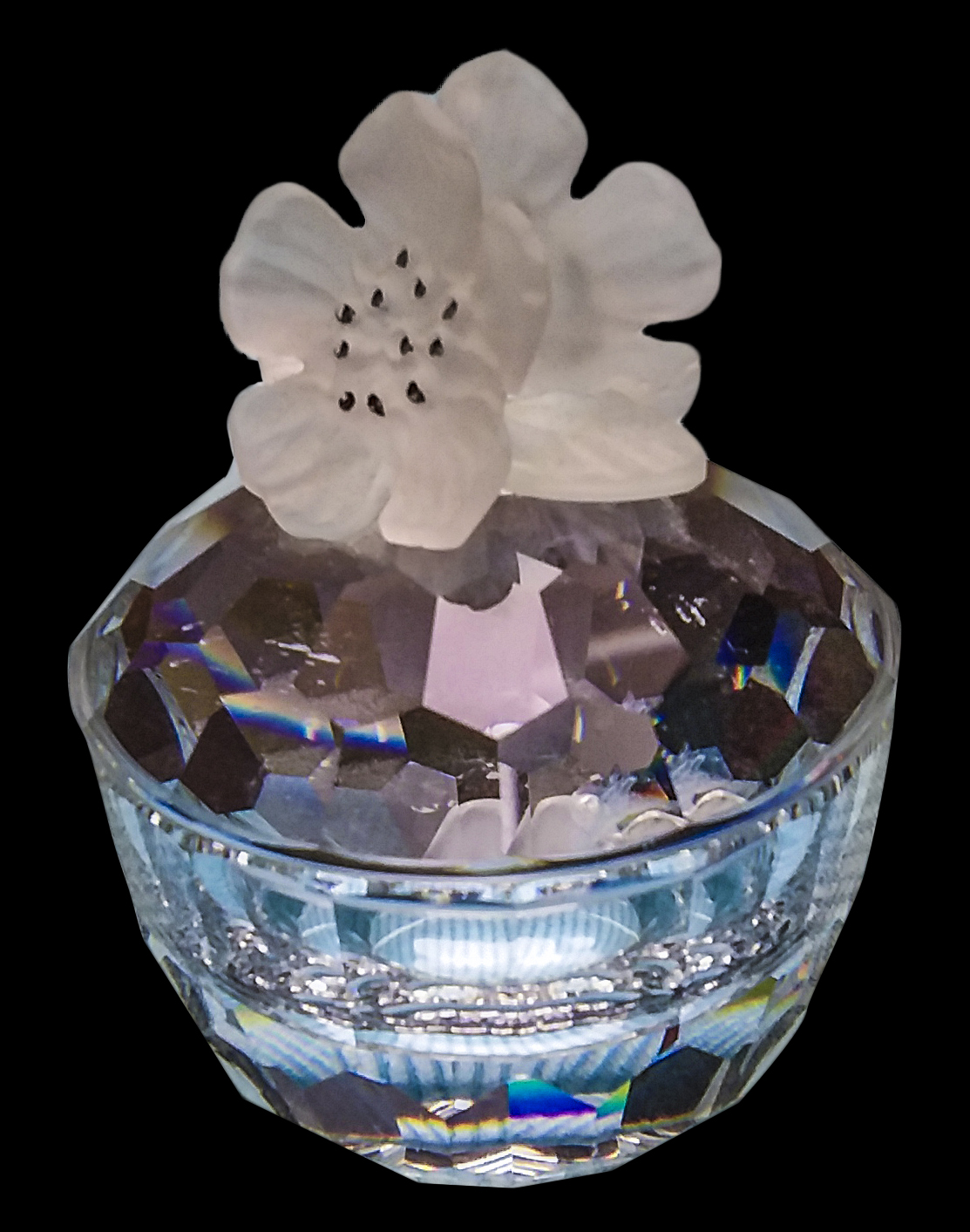 Swarovski container made of crystal glas and opaque glas. The container, belonging to myself, is permanently located on my windowsill in Sand am Main, Marienstraße, Germany. It is permanently visible from a public way (Marienstraße). The picture is cropped and improved in contrast.